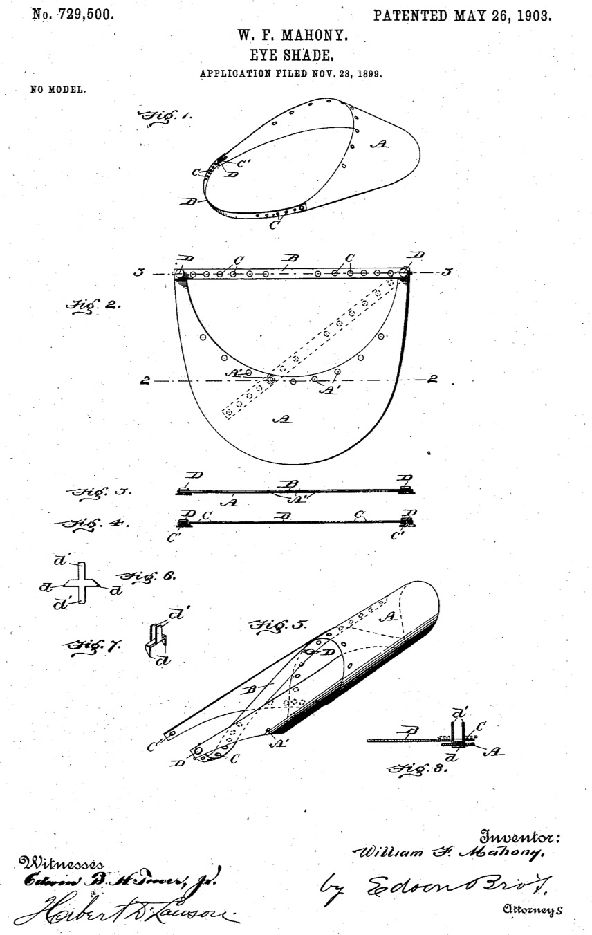 Patent from 1903 for a green visor or eyeshade by W.F. Mahony